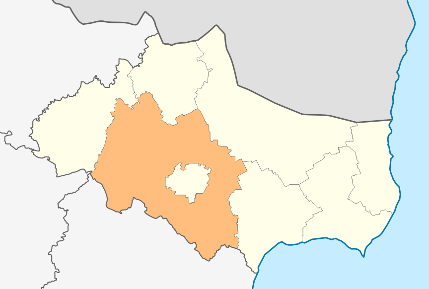 Map of Dobrichka municipality, Dobrich Province